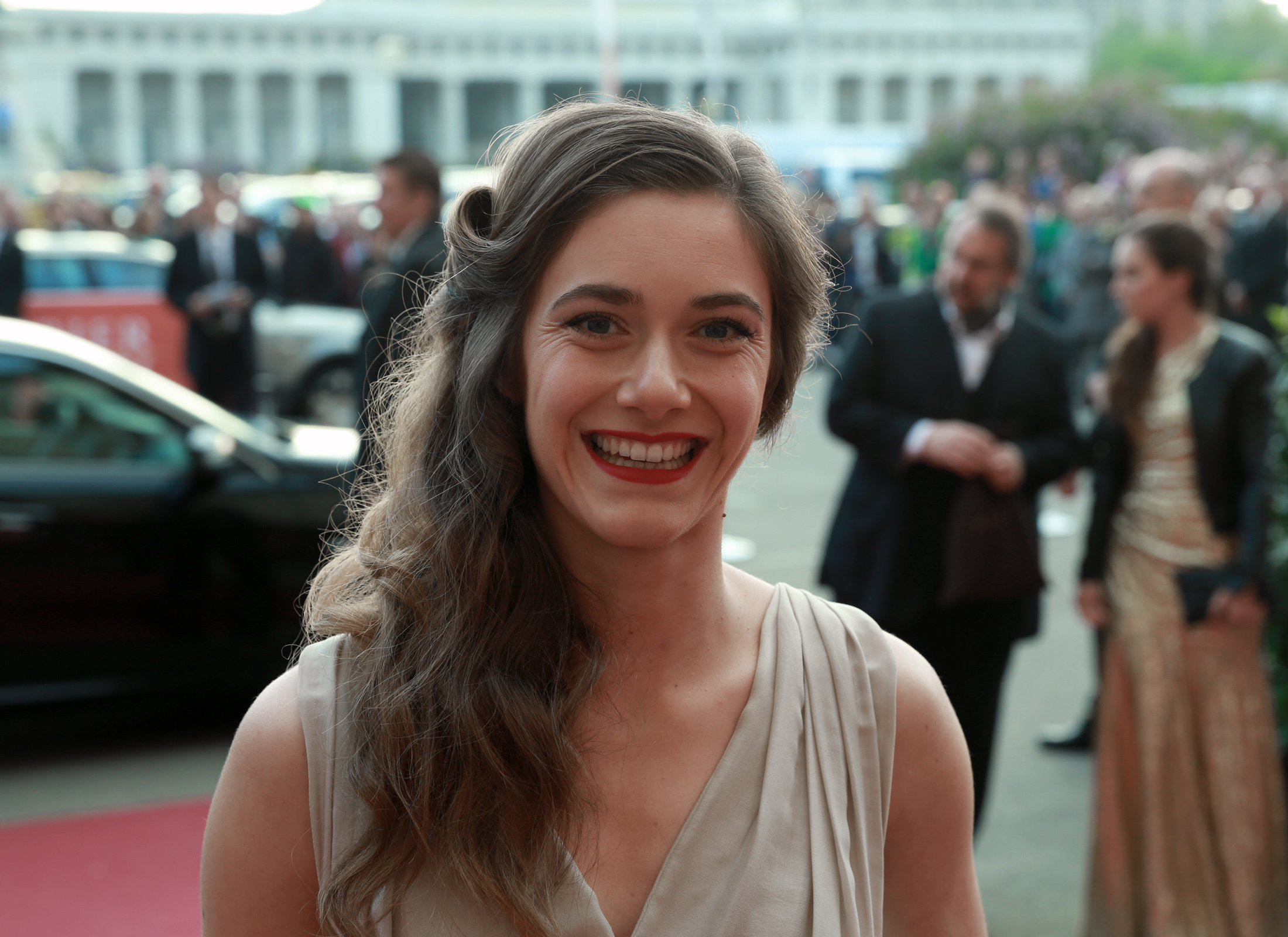 Miriam Stein at the Romy film awards 2014 (Hofburg Imperial Palace in Vienna)